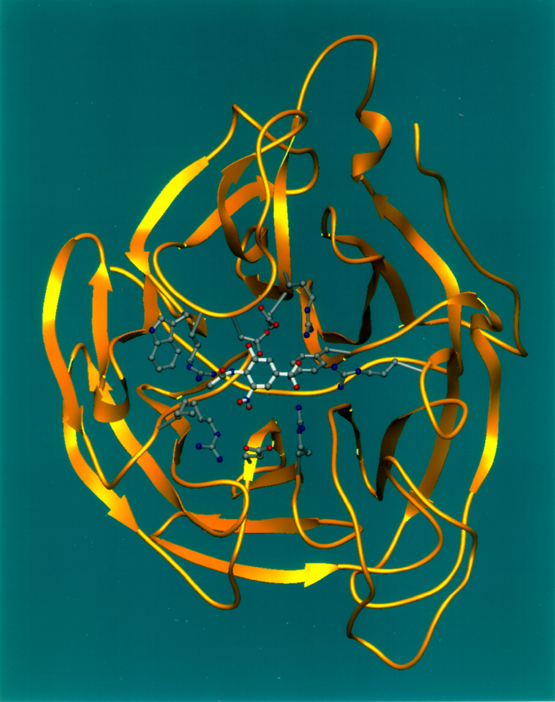 A ribbon structure of influenza neuraminidase bound to an inhibitor. Ball-stick shown for aromatic inhibitor ST1/BANA105 (4-acetamido-3-hydroxy-5-nitro-benzoic acid) and (faded) interacting sidechains. PDB 1IVB or 1IVD. PMID 7880809.